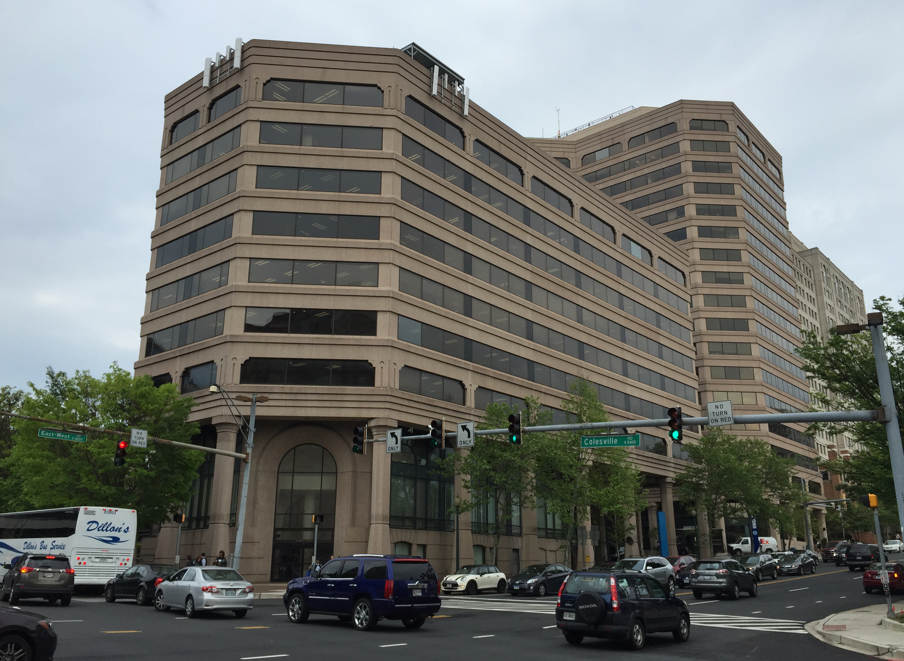 National Oceanic and Atmospheric Administration headquarters at the intersection of Colesville Road (Maryland State Route 384) and East-West Highway (Maryland State Route 410) in Silver Spring, Montgomery County, Maryland